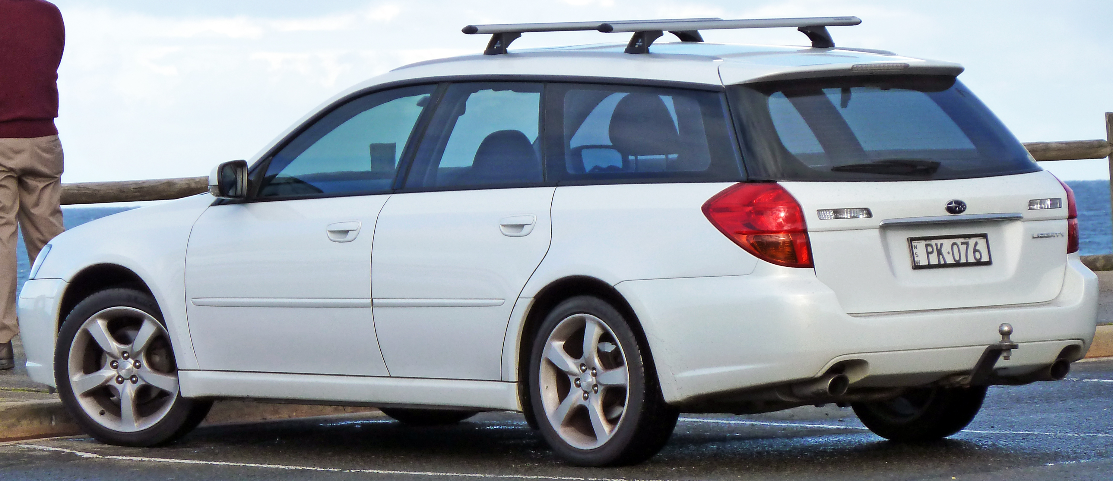 2003–2006 Subaru Liberty station wagon. Photographed in Cronulla, New South Wales, Australia.